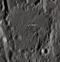 Gylden lunar crater as seen from Earth with satellite craters labeled